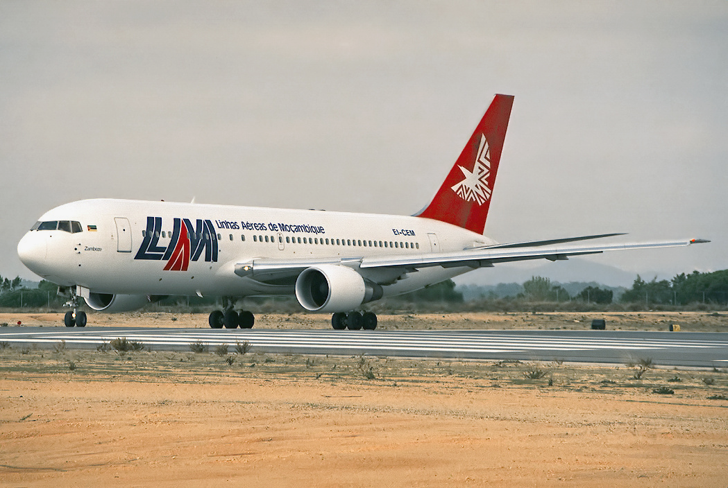 A LAM Mozambique Airlines Boeing 767-2B1/ER at Faro Airport (FAO / LPFR)